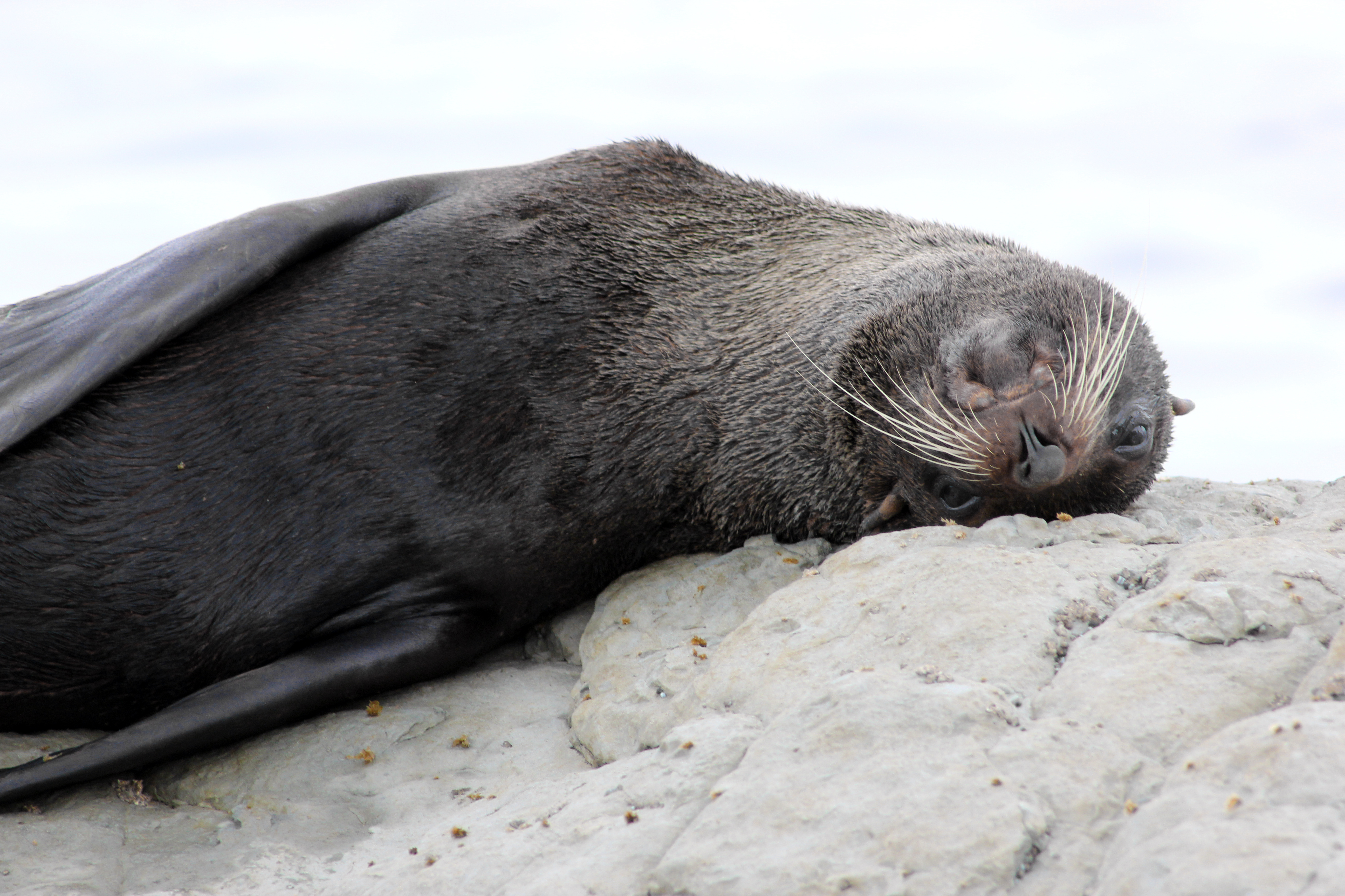 Point Kean Fur Seal colony in Kaikoura